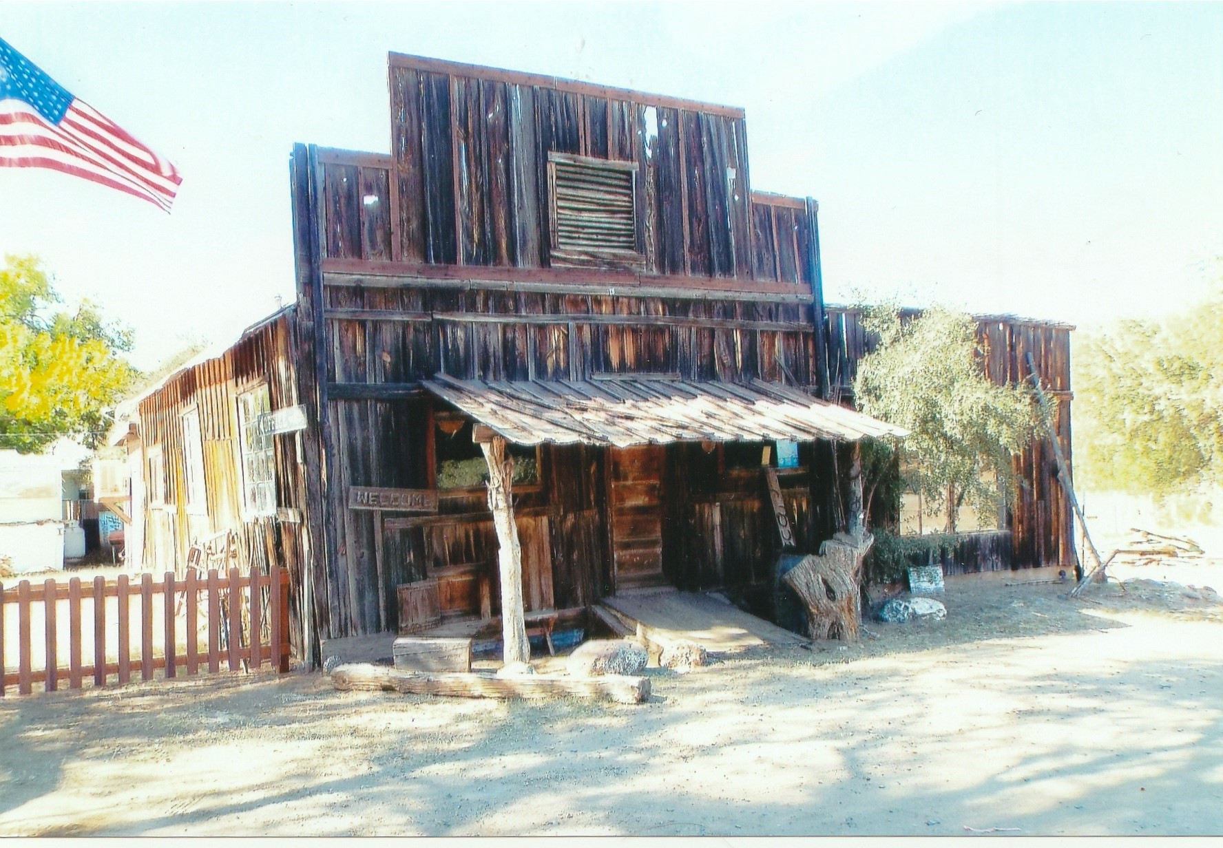 The Wells Fargo Stage Stop - The stage stop was built in 1872 close to the Maggie Mine.